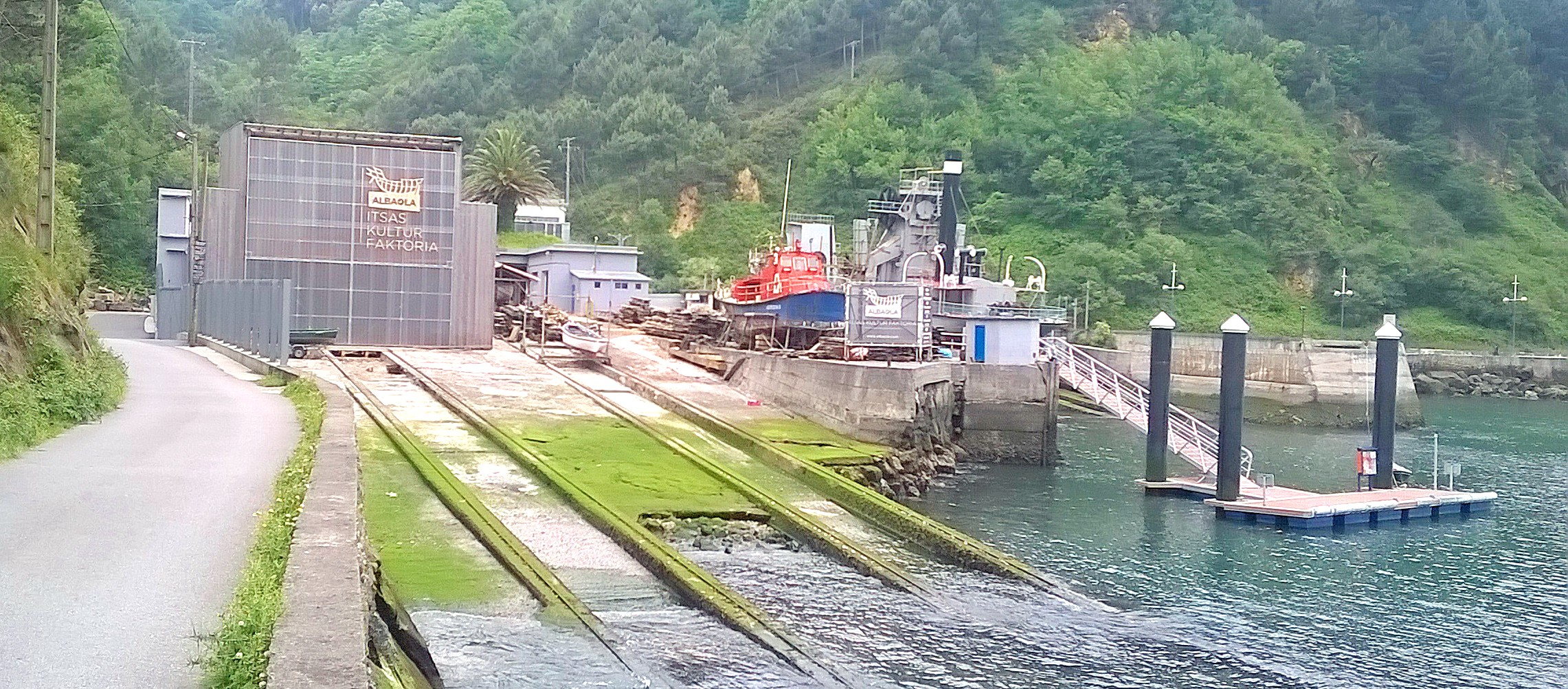 Albaola Itsas Kultur Faktoria, Pasai San Pedro. Gipuzkoa, Basque Country